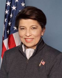 Jovita Carranza as Deputy Administator Small Business Administration